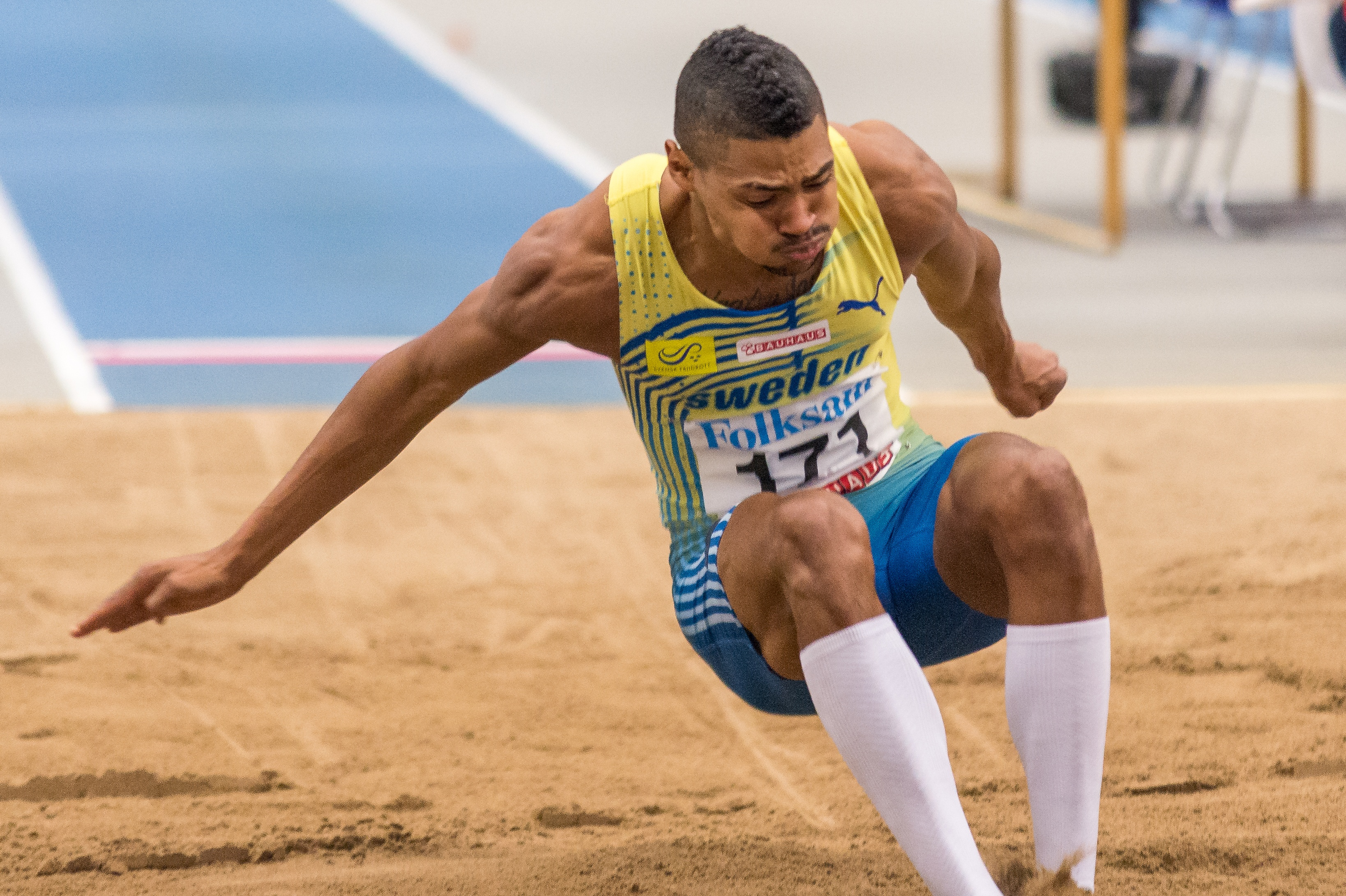 Swedish midfielder Denis Velic playing a preseason game for Östers IF versus Kristianstad in Växjö Tipshall, Valentine's Day 2013.